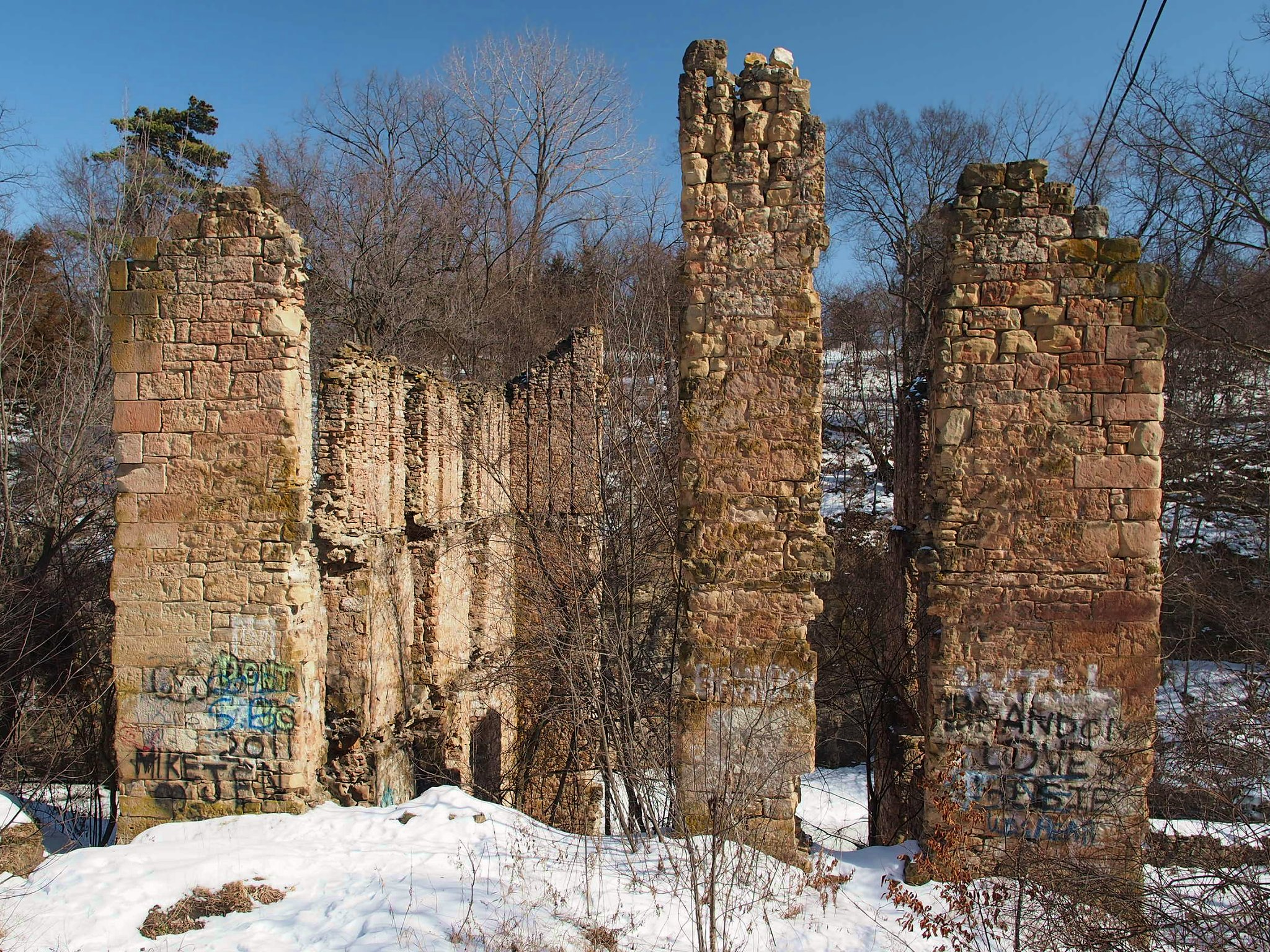 Ramsey Mill ruins, Old Mill Park, Hastings, Minnesota, USA. Viewed from the west.